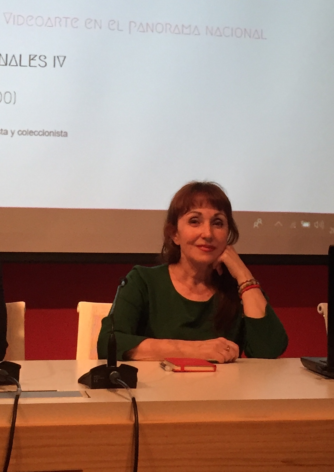 portrait